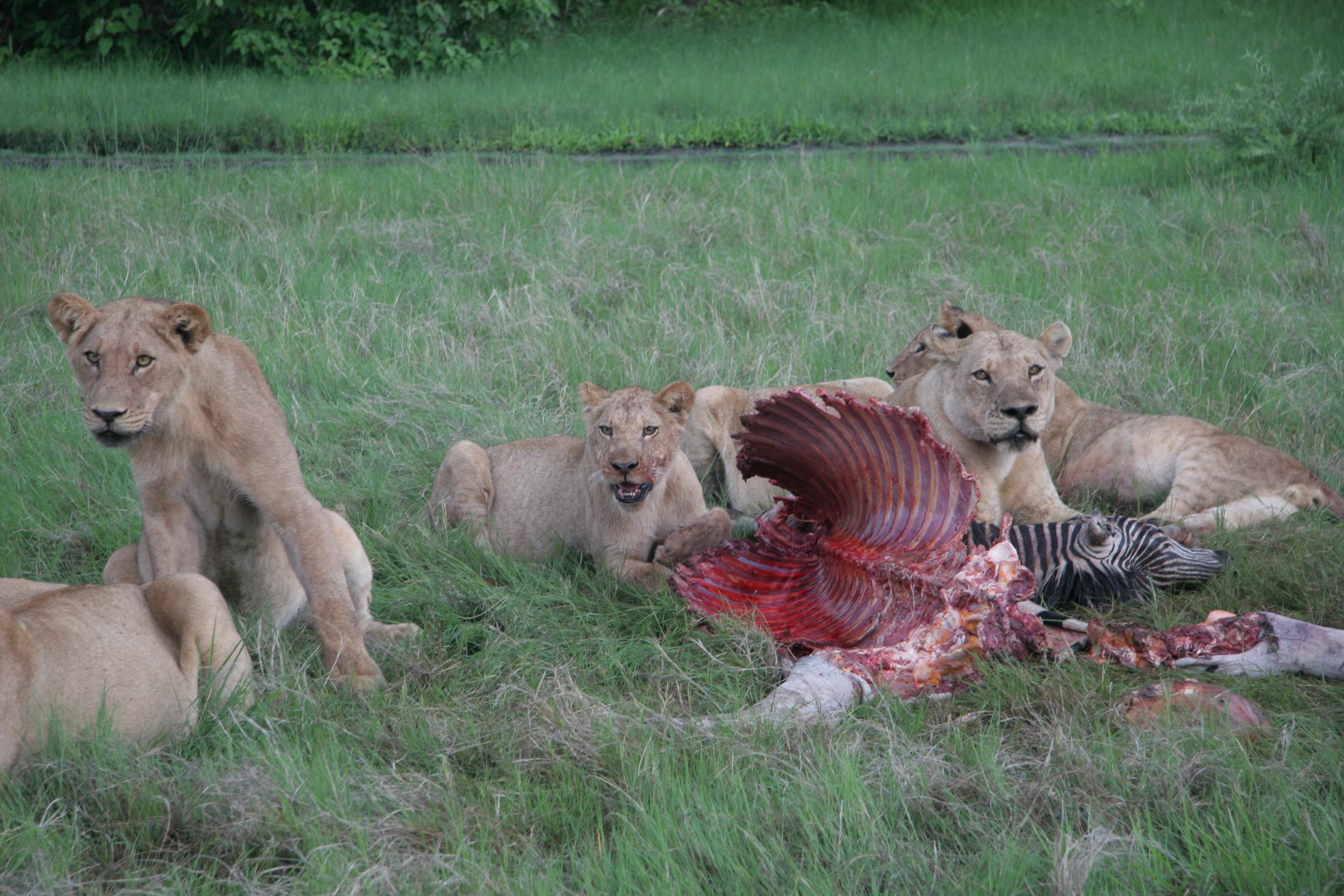 Lions and a Zebra